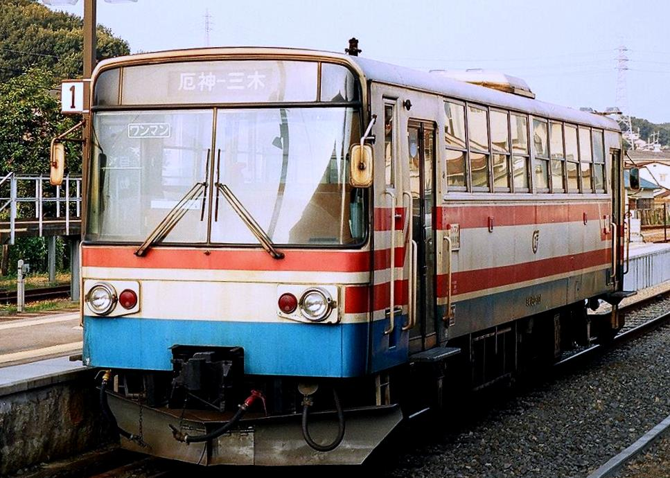 Miki Railway Type Miki180-101 Railcars (Japan,Hyōgo prefecture,Miki city). It takes a picture from the platform in the Miki Station premises. See also Ja:三木鉄道 for more information(written in Japanese).